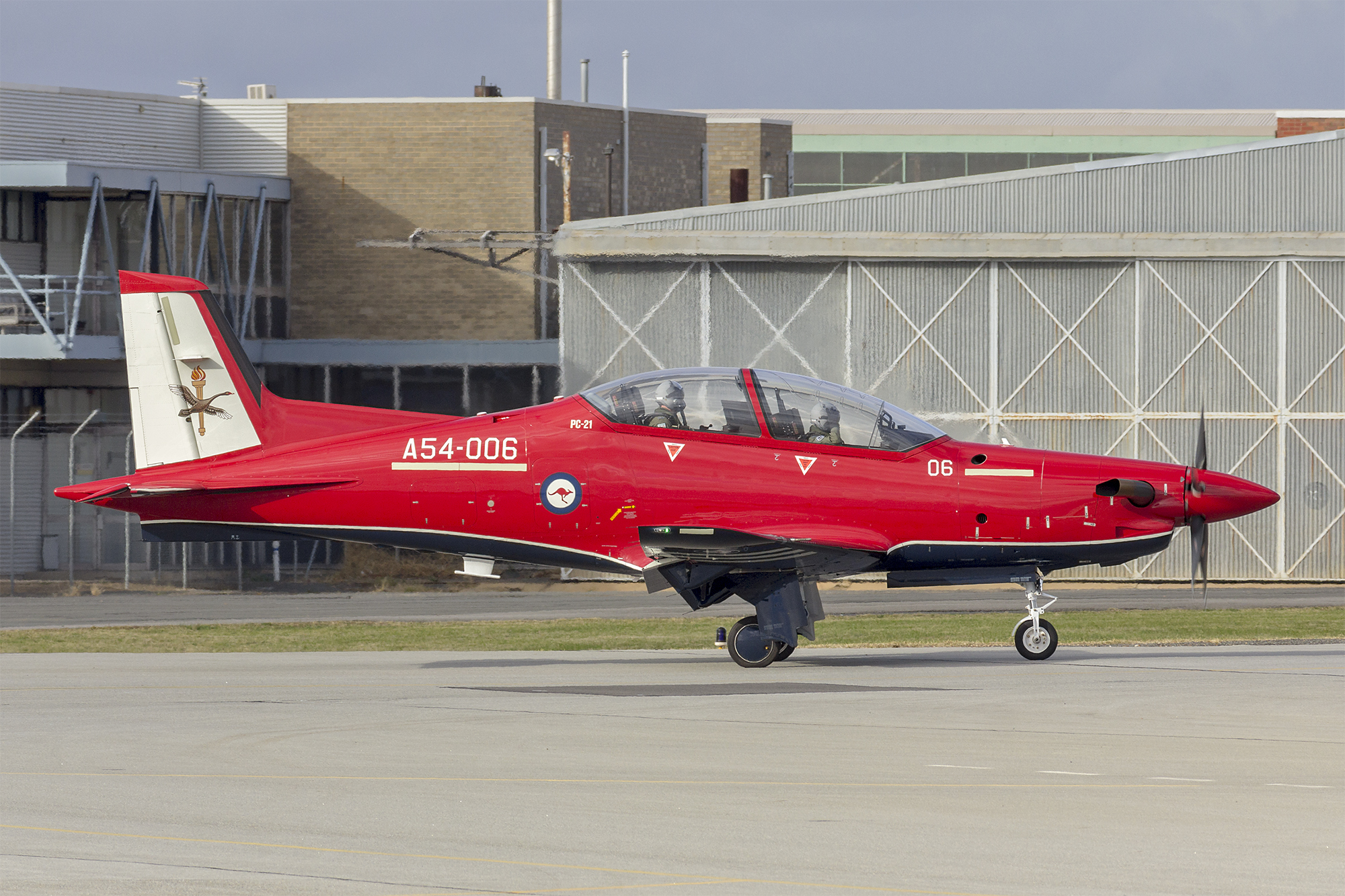 Royal Australian Air Force (A54-006) Pilatus PC-21 at Wagga Wagga Airport.